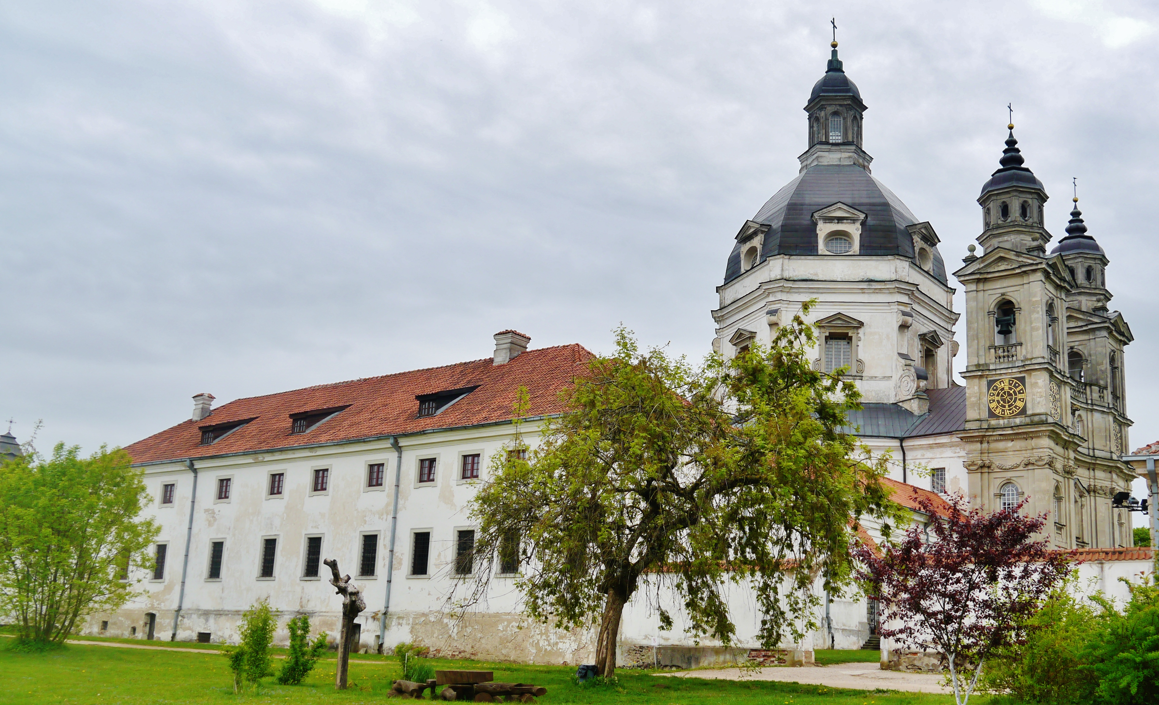 Pazaislis Monastery Church, Kaunas, Lithuania